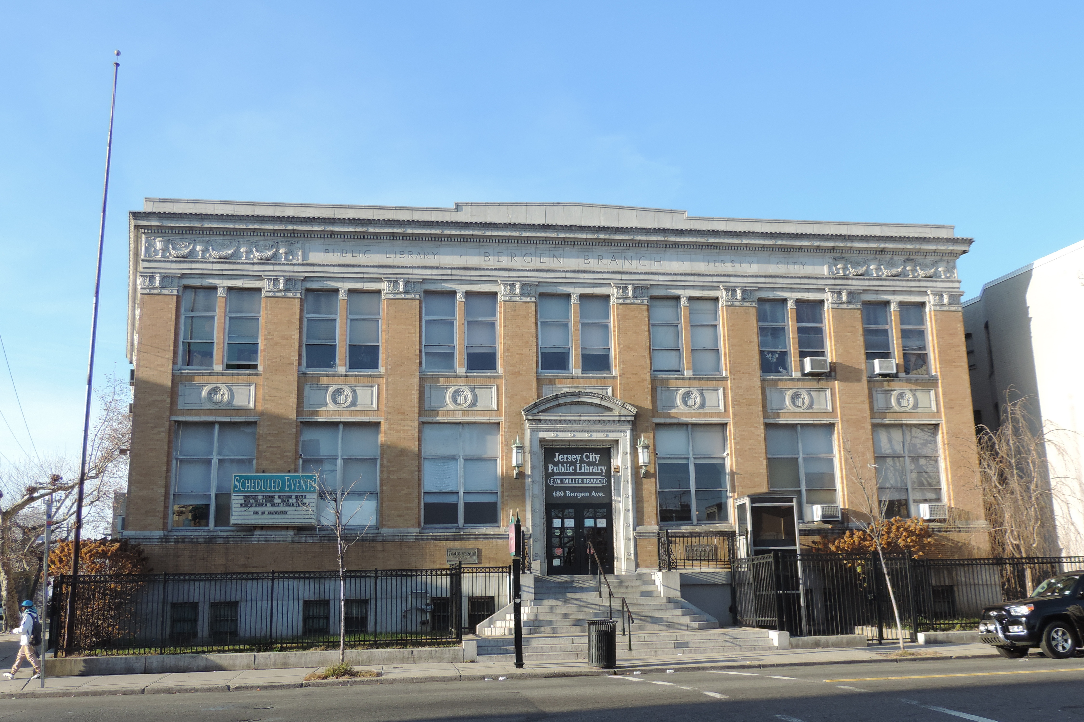 Looking northwest across Bergen Avenue at Miller branch in the Bergen Section on a sunny afternoon